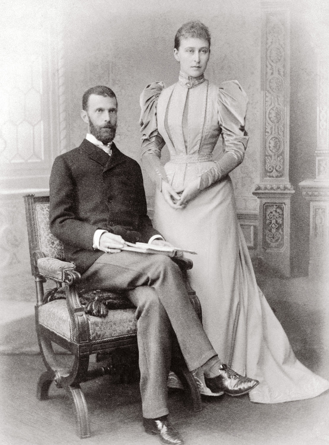 Elizabeth Fyodorovna and Sergej